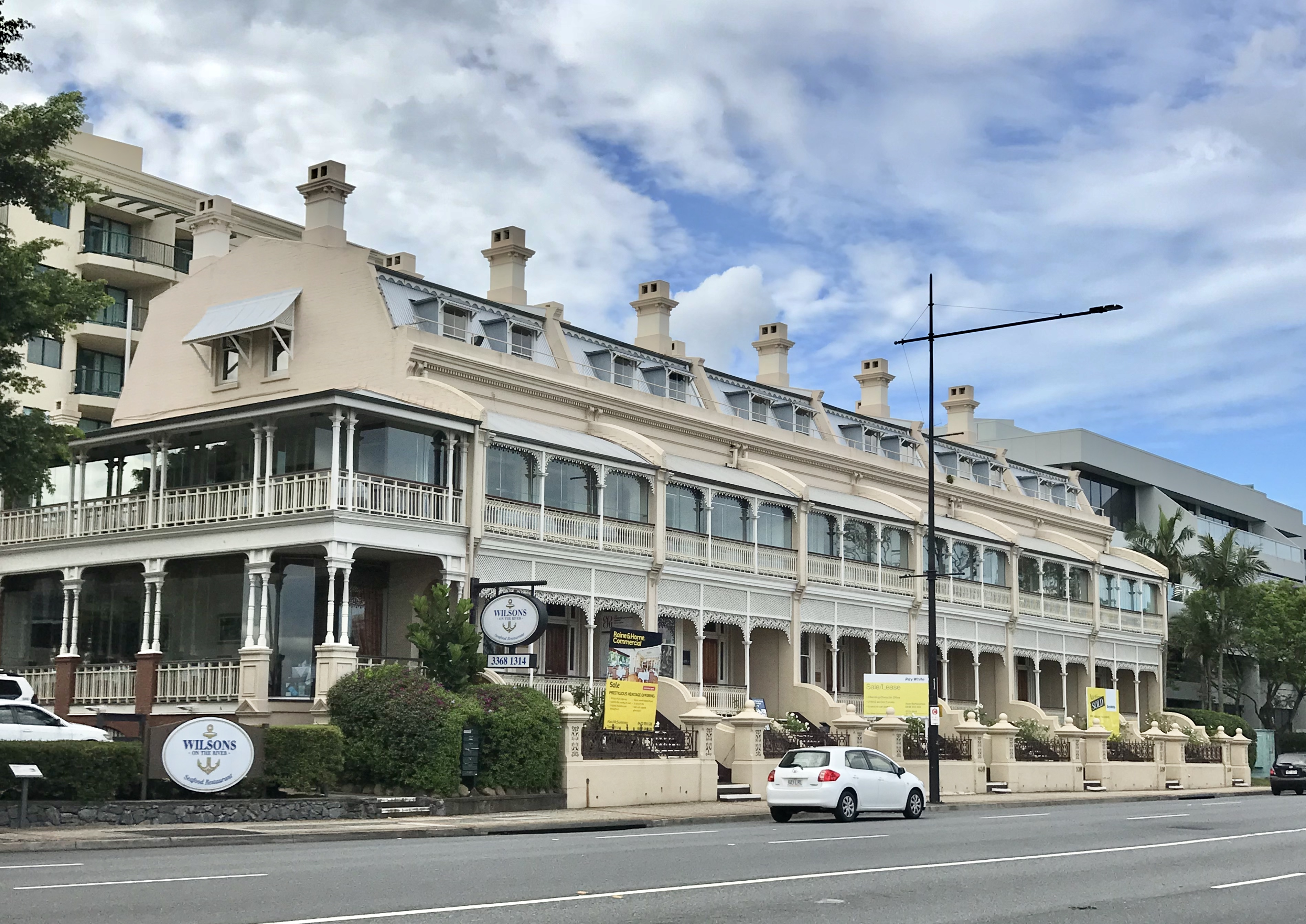 Terraced house on Coronation Drive at Milton, Queensland